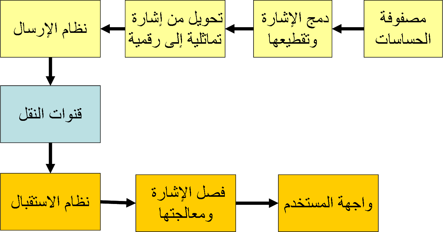 scheme of telemetry system